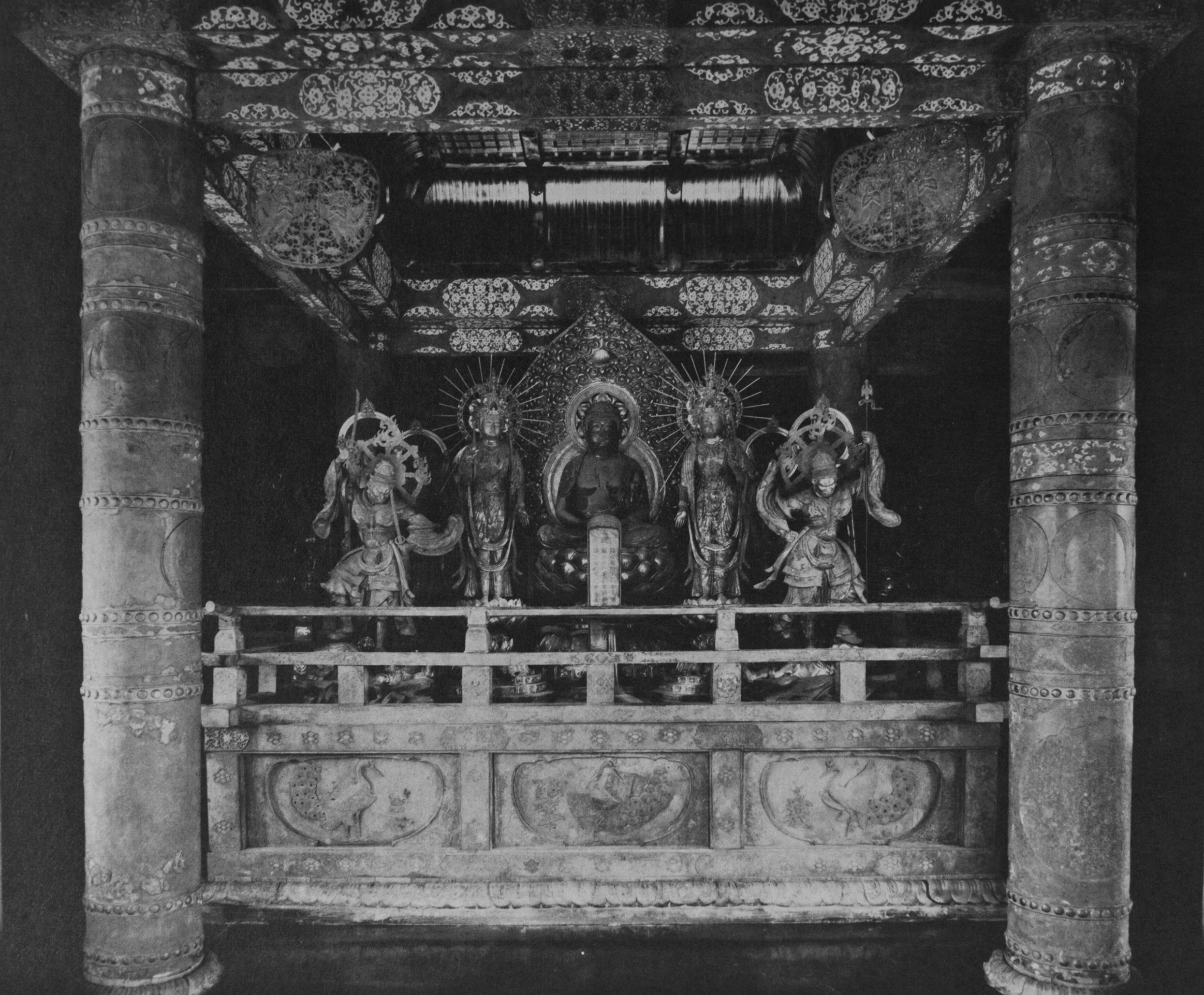 Chusonji, Iwate, Japan